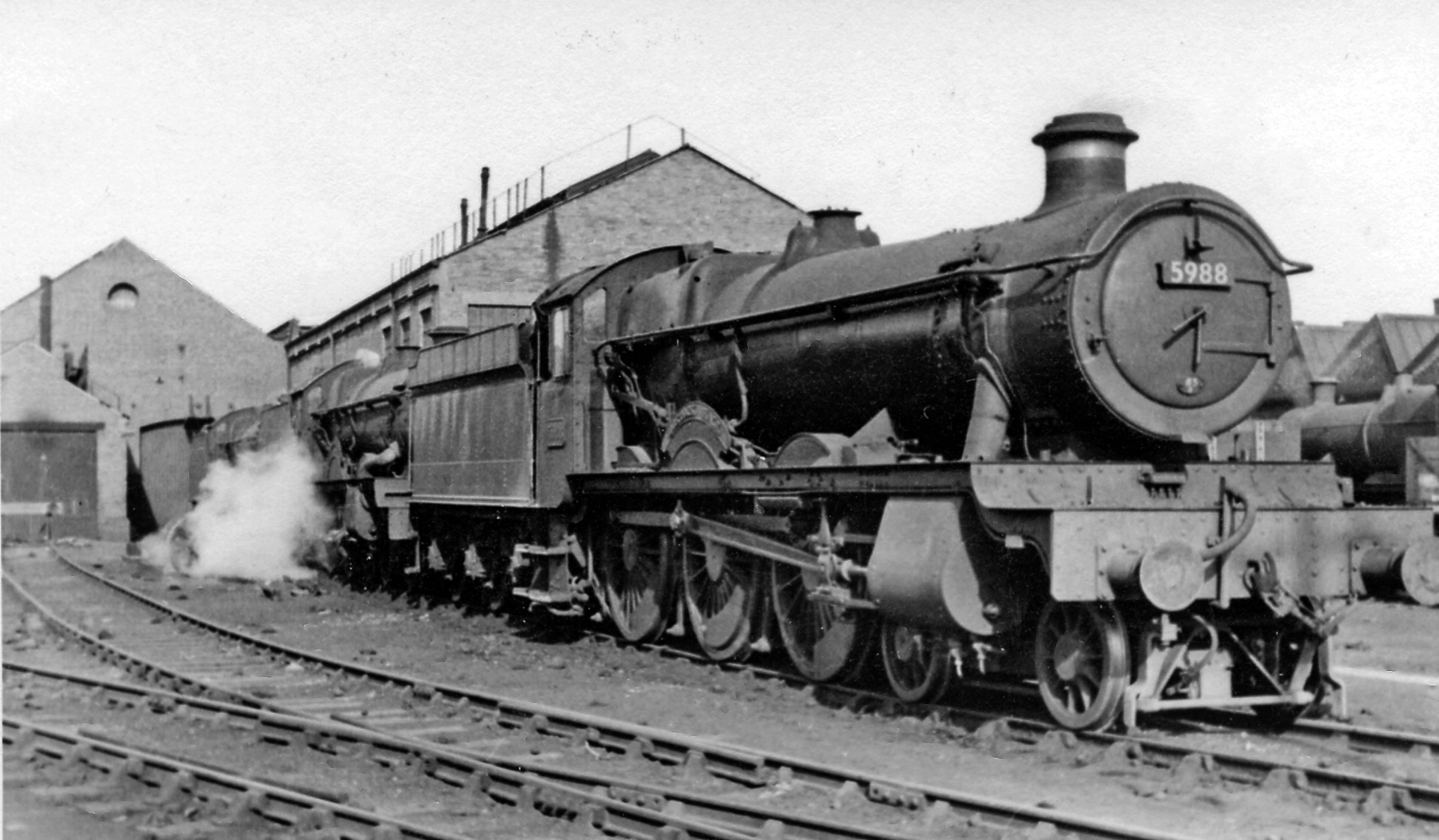 A 'Hall' in the Canton Locomotive Yard, Cardiff. view eastward, towards Cardiff General station. Canton was the main Locomotive Depot at Cardiff, on the ex-GWR South Wales main line, about ¾-mile to the west on the Down side. In June 1950 the Depot (coded 86C in the Newport District) had a large allocation of 119, for varied main-line and some local duties, comprising:- 5 4-6-2 (BR Standard), 46 4-6-0 (41 GW, 5 BR Standard), 25 2-8-0 (15 GW, 10 ex-WD), 4 2-6-0, 9 2-8-0T, 1 2-6-2T, 11 0-6-2T, 18 0-6-0T. (These included a sprinkling (6) of engines from the former Valleys Railways). Featured here is 4-6-0 No. 5988 'Bostock Hall' (built 11/39, withdrawn 10/65).